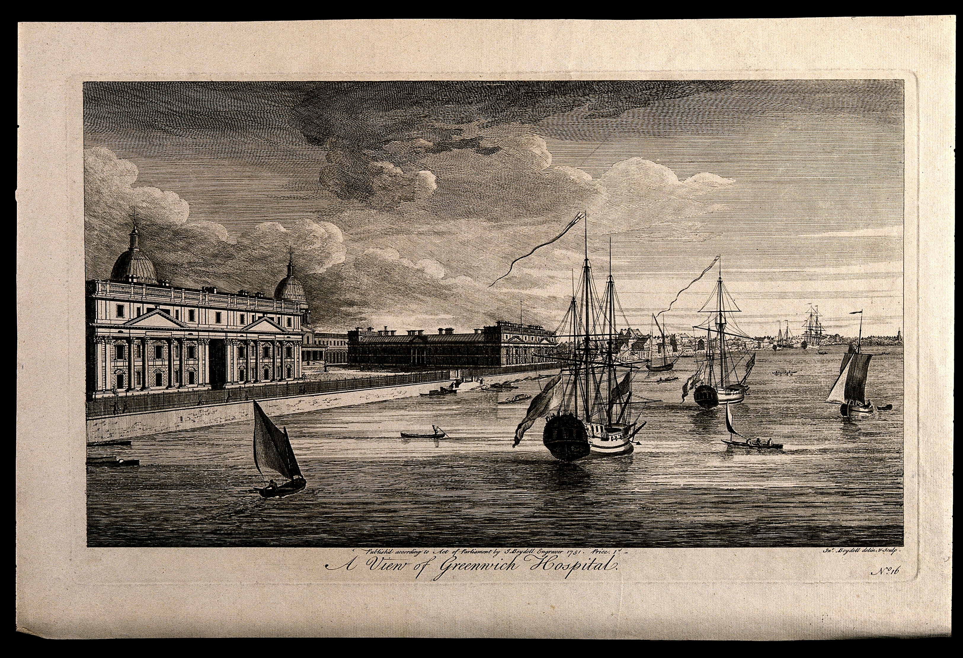 Royal Naval Hospital, Greenwich, seen from down river, with ships and rowing boats in the right foreground, houses in the distance. Engraving by J. Boydell after himself, 1751. Iconographic Collections Keywords: Royal Hospital for Seamen at Greenwich; John Boydell